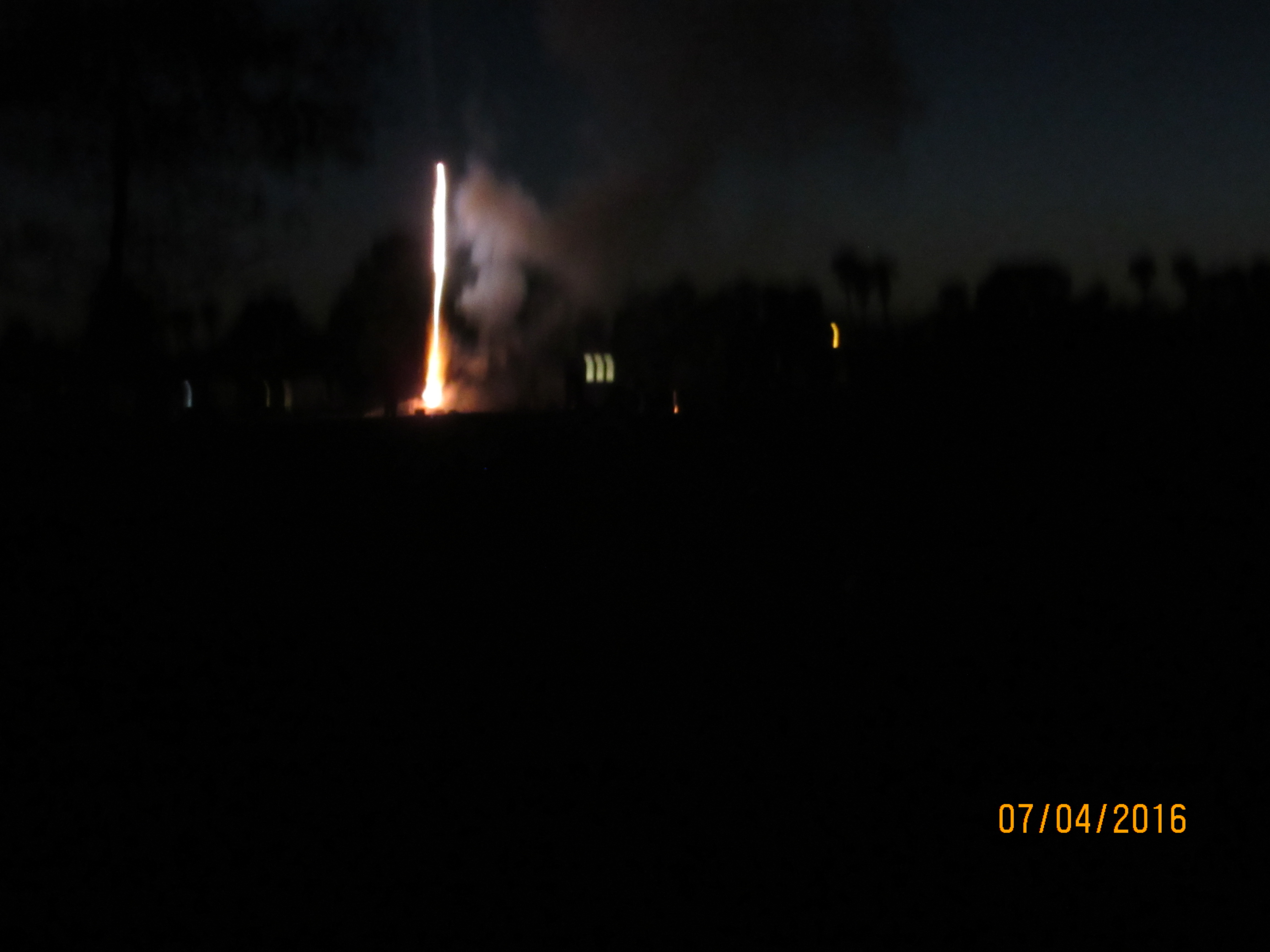 A firework rocket being launched on Independence Day.